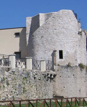 Part of a villa formerly owned by Italian Senator Camillo Cantarano (1872–1961) in Fondi, Lazio, Italy.